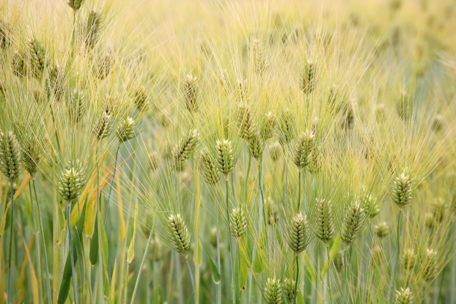 Barley (Hordeum vulgare) - United States National Arboretum